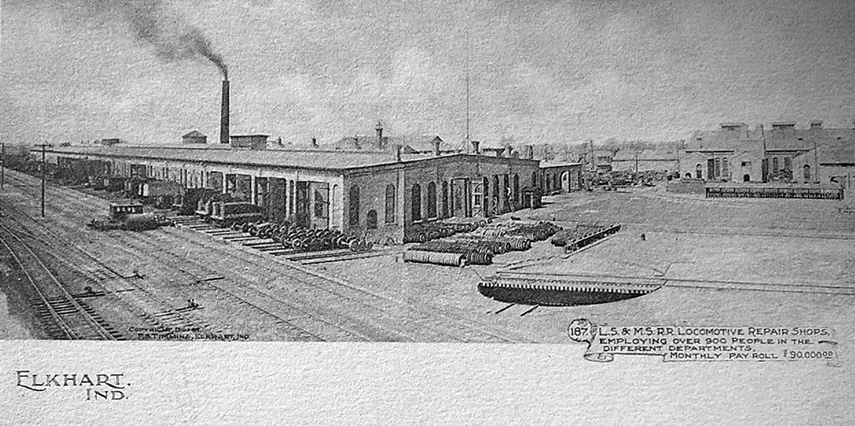 Postcard photo of the repair shops of the Lake Shore and Michigan Southern Railroad in Elkhart, Indiana.